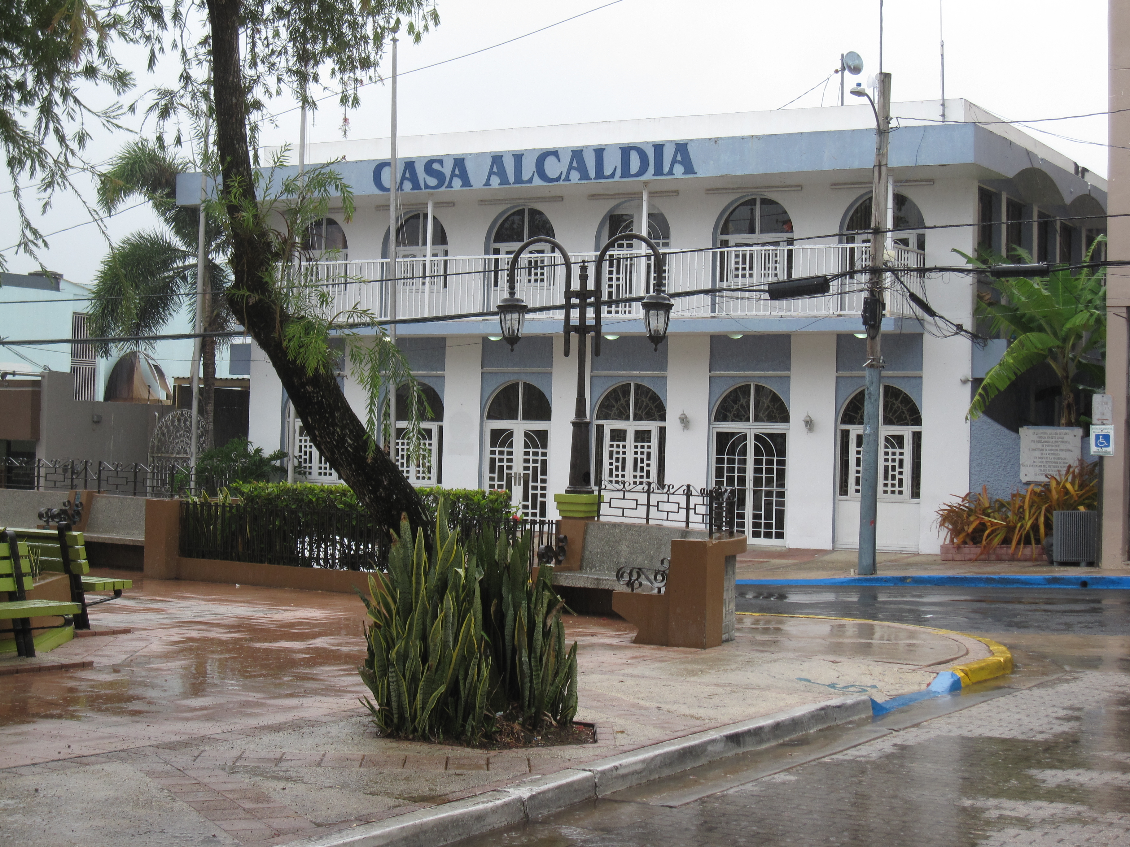 Casa Alcaldia, Lares, Puerto Rico